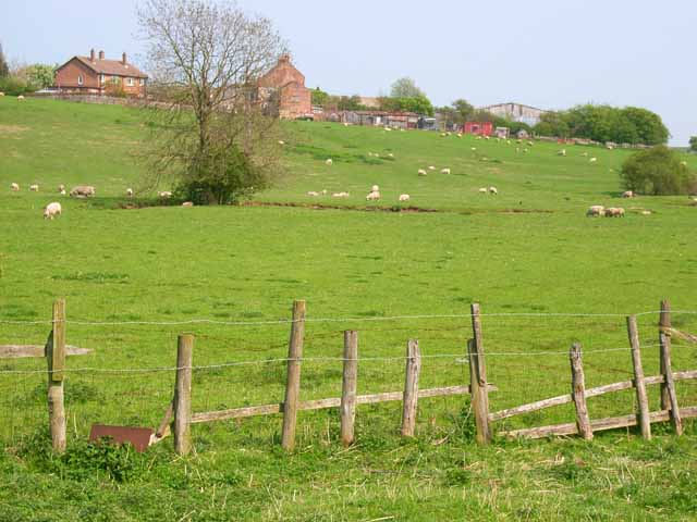 Old Stillington viewed from the Beck.